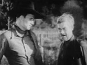 Snapshot from Riders of Destiny (1933).